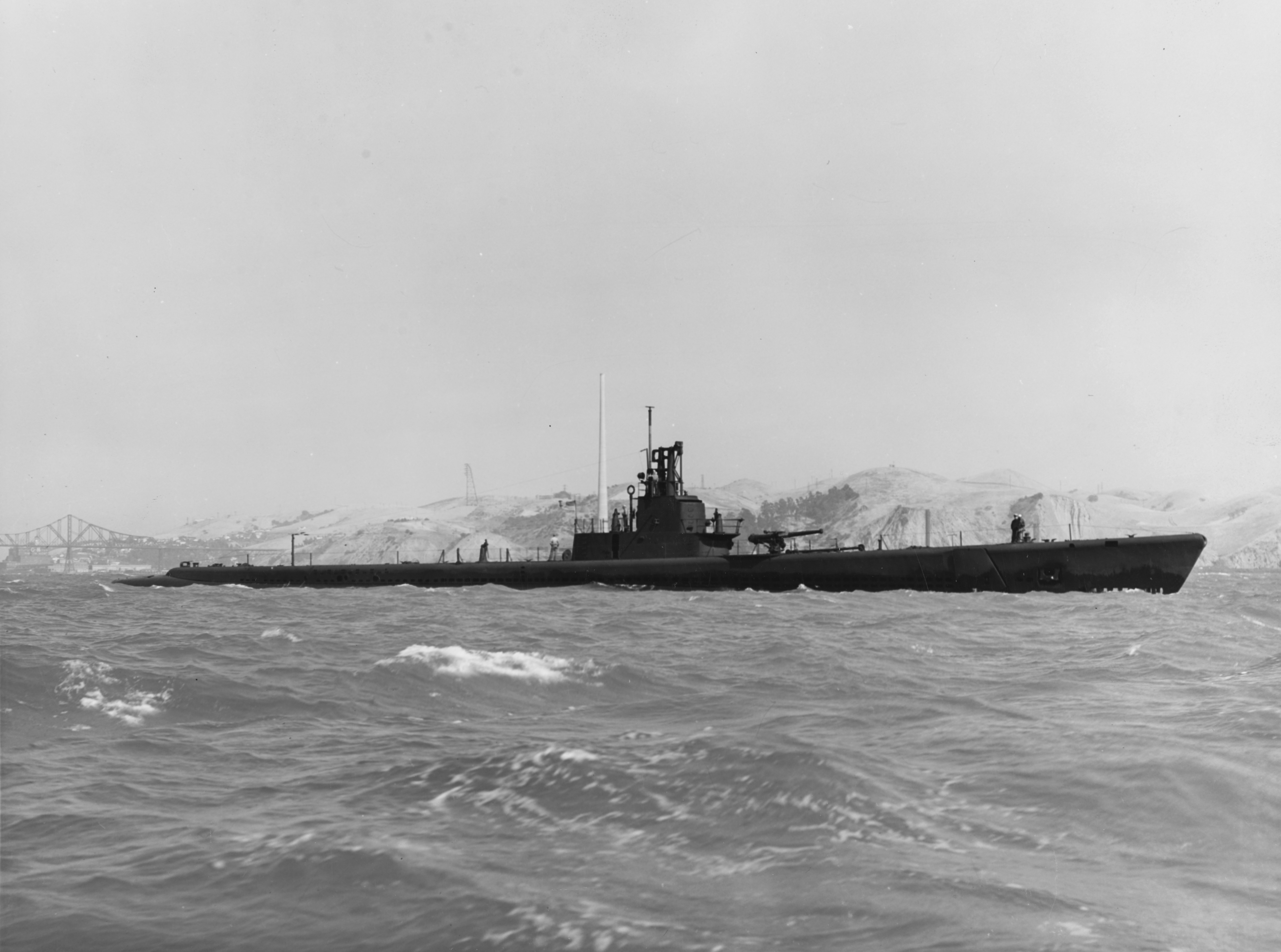 The U.S. Navy submarine USS Wahoo (SS-238) off the Mare Island Naval Shipyard, California (USA), on 14 July 1943.